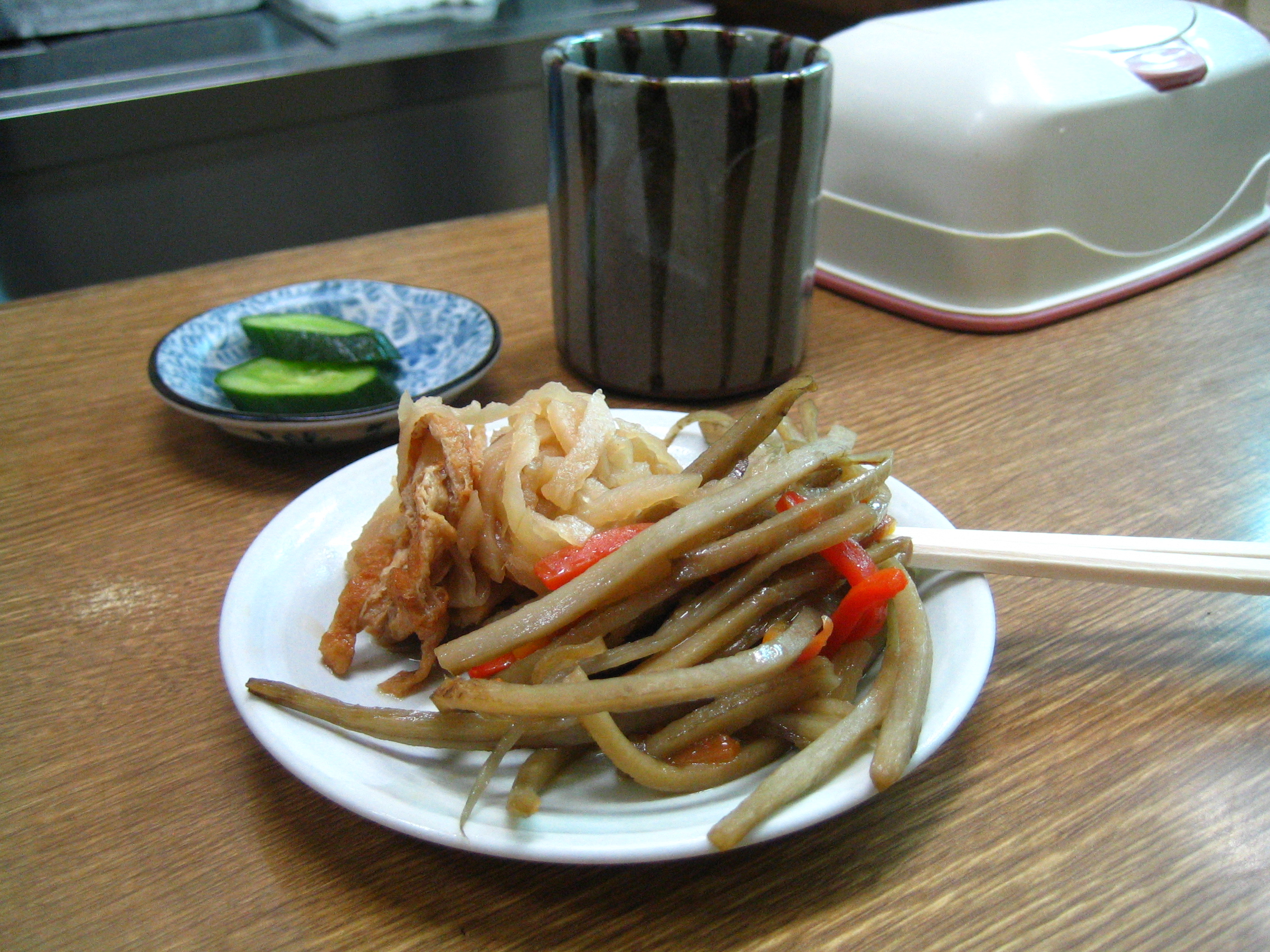 A dish containing a Japanese appetizer, kinpira gobō, consisting of sauteed gobō (Greater burdock root) and ninjin (carrot), with a side of kiriboshi daikon (sauteed boiled dried daikon). This dish is a small appetizer that is served before the entree. Photo taken at Takahashi, Tsukiji fish market, Tokyo. The small blue dish contains sliced cucumber and the mug contains green tea.